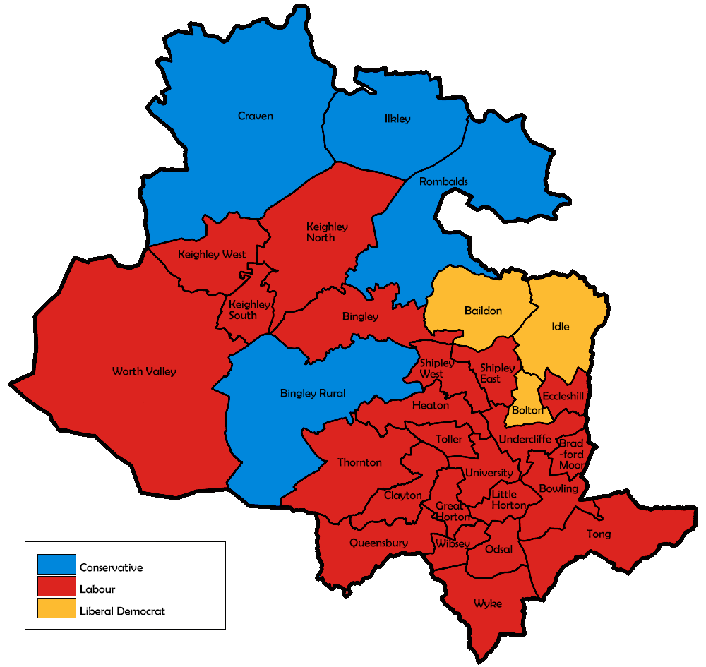 Ward map of Bradford Council with political colouring for the 1996 local election.